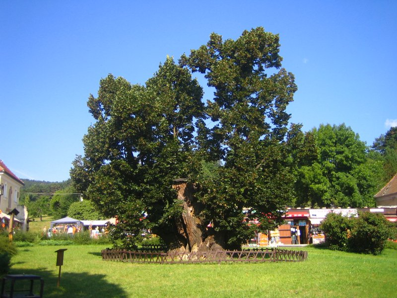 Linden Tree of King Matthias Korvinus, Bojnice, near Bojnice castle SK, Tilia platyphyllos